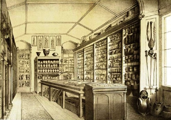 Thomas Bateman's Museum, Lomberdale Hall, Middleton-by-Youlgreave, nr Bakewell, c 1850s?